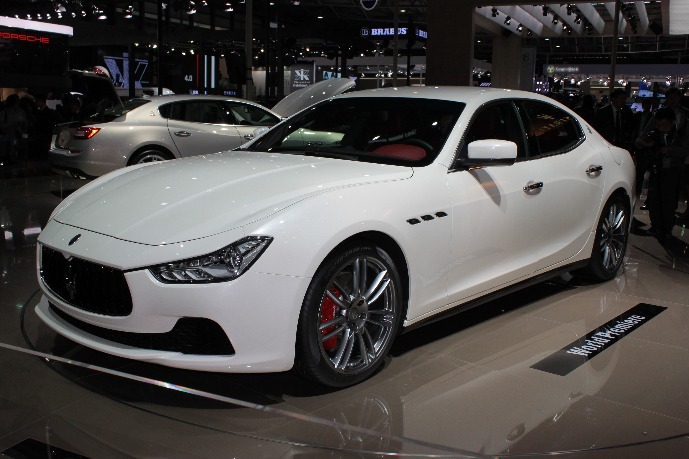 Maserati Ghibli III world premiere at AutoShanghai 2013